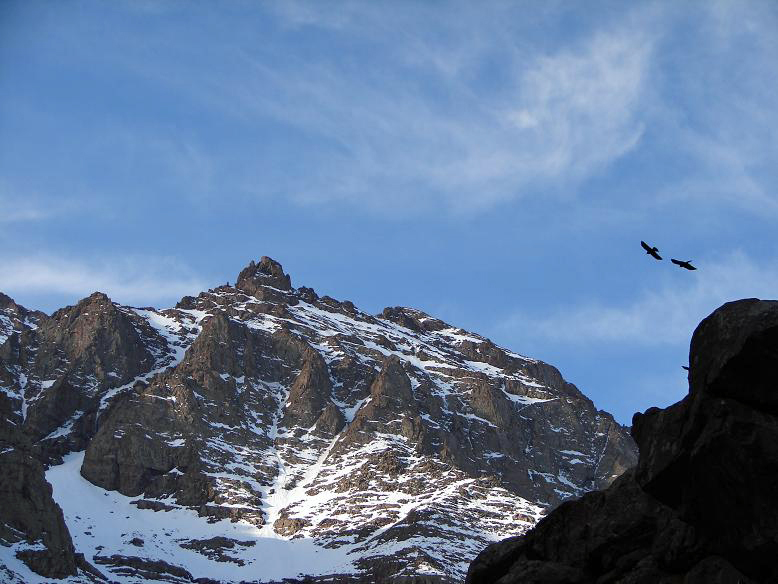 Taken on the route up to Jbel Toubkal (Morocco) by myself.